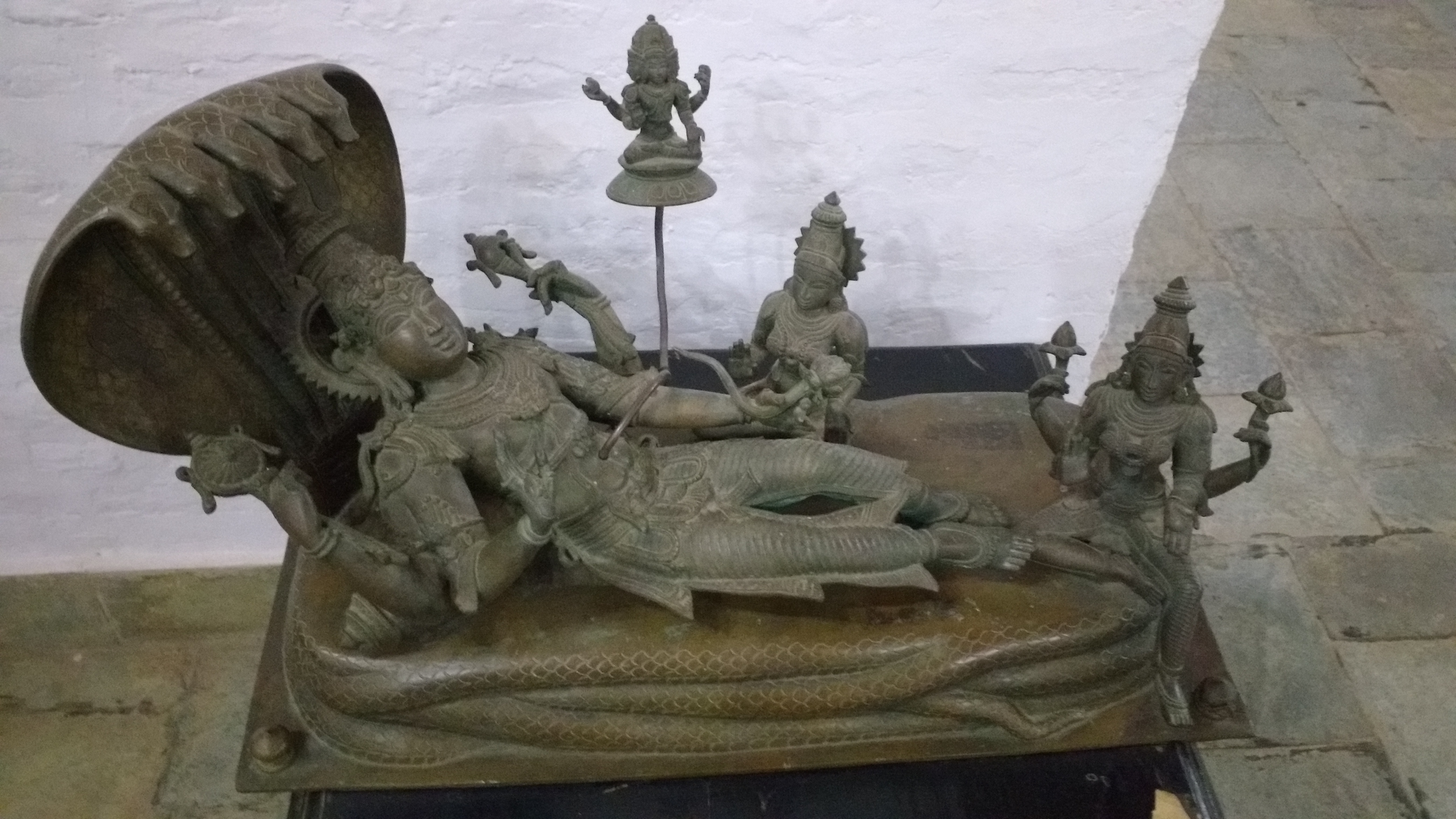 Lord Mahavishnu - Metal Statue